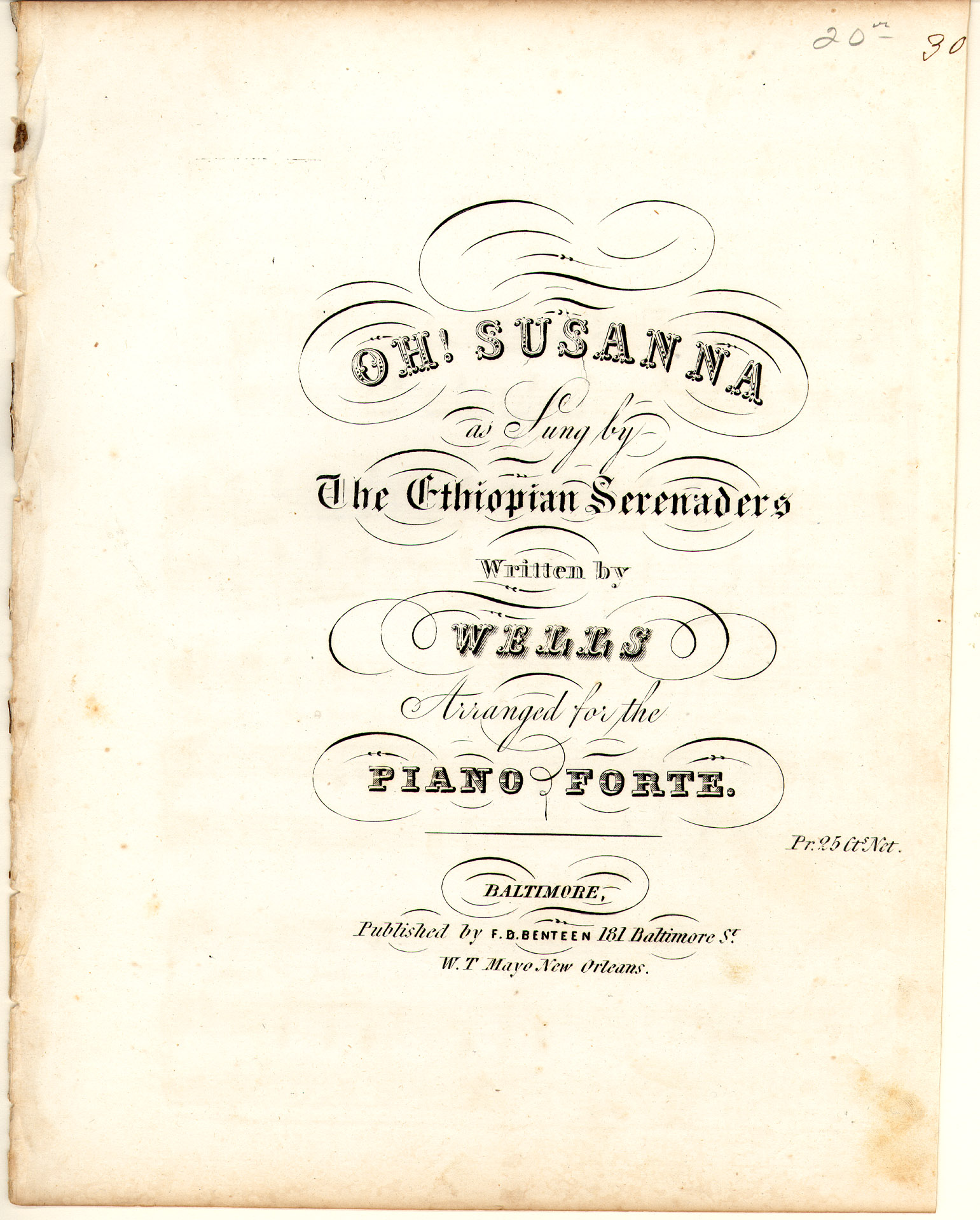 Cover to "Oh! Susanna" by Stephen Foster